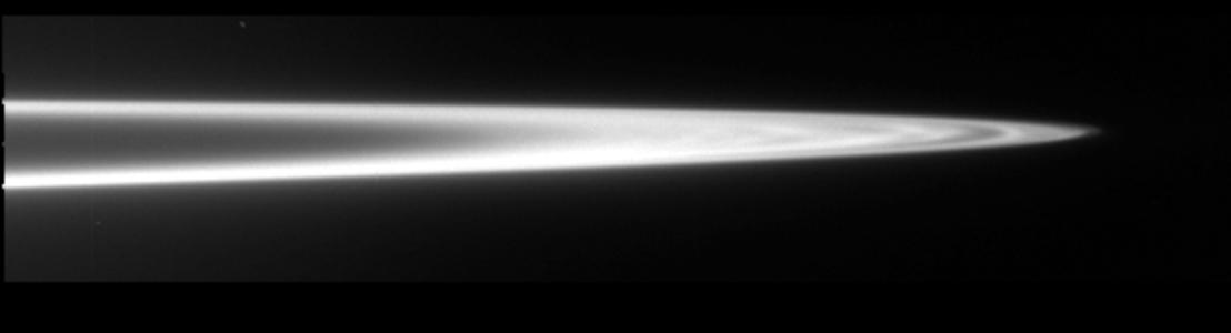 Category:Jupiter Image of the main ring of Jupiter obtained by Galileo in forward-scattered light.